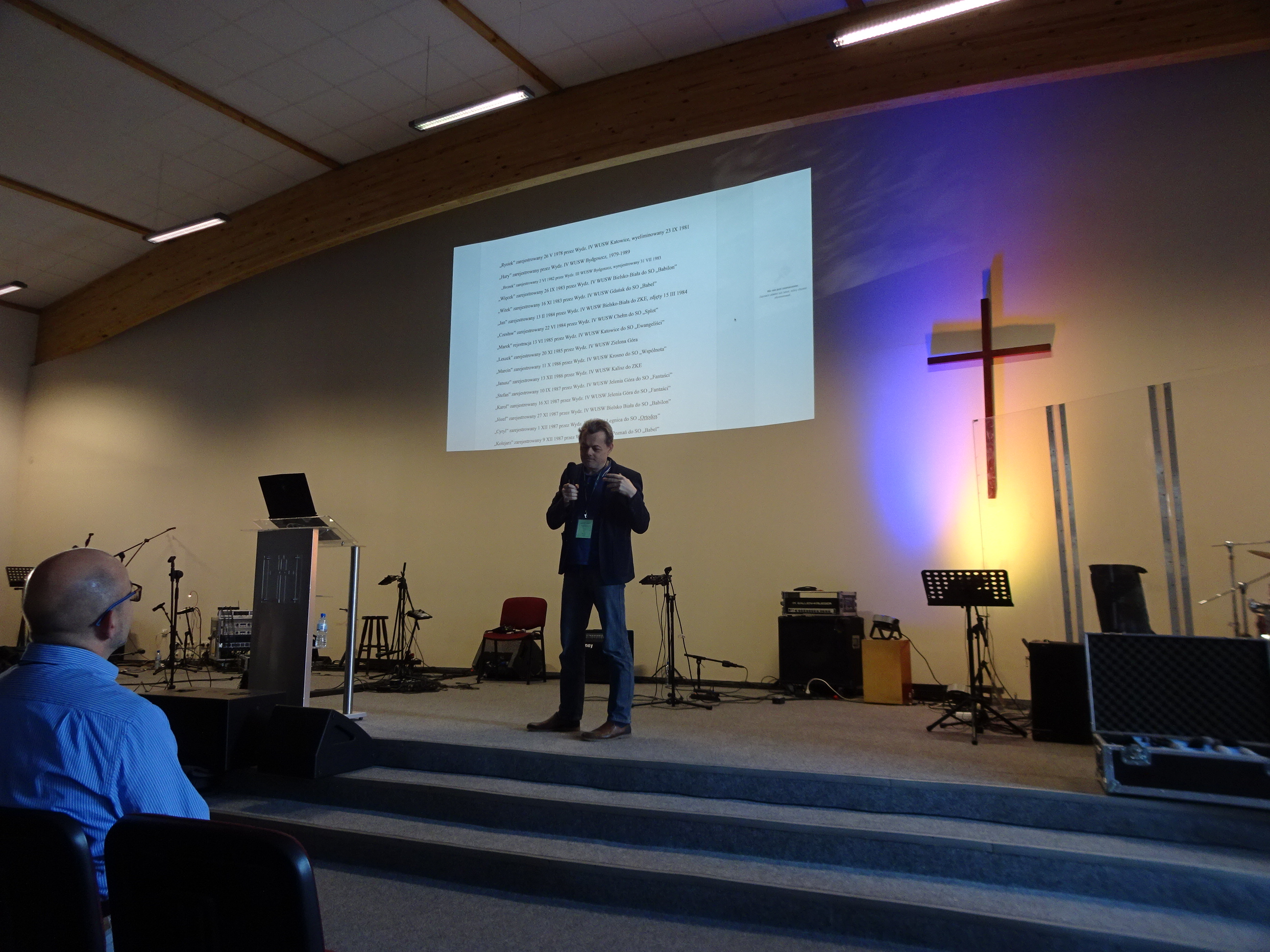 Synod KZ, lustracja